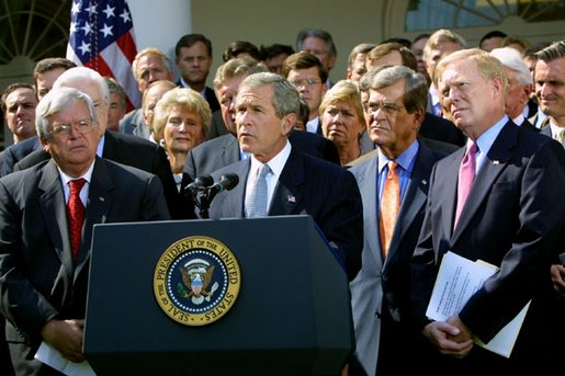 President George Bush introduces the Joint Resolution to Authorize the Use of United States Armed Forces Against Iraq, October 2, 2002. The resolution was passed by both houses of Congress and signed into law two weeks later. White House photo by Paul Morse.